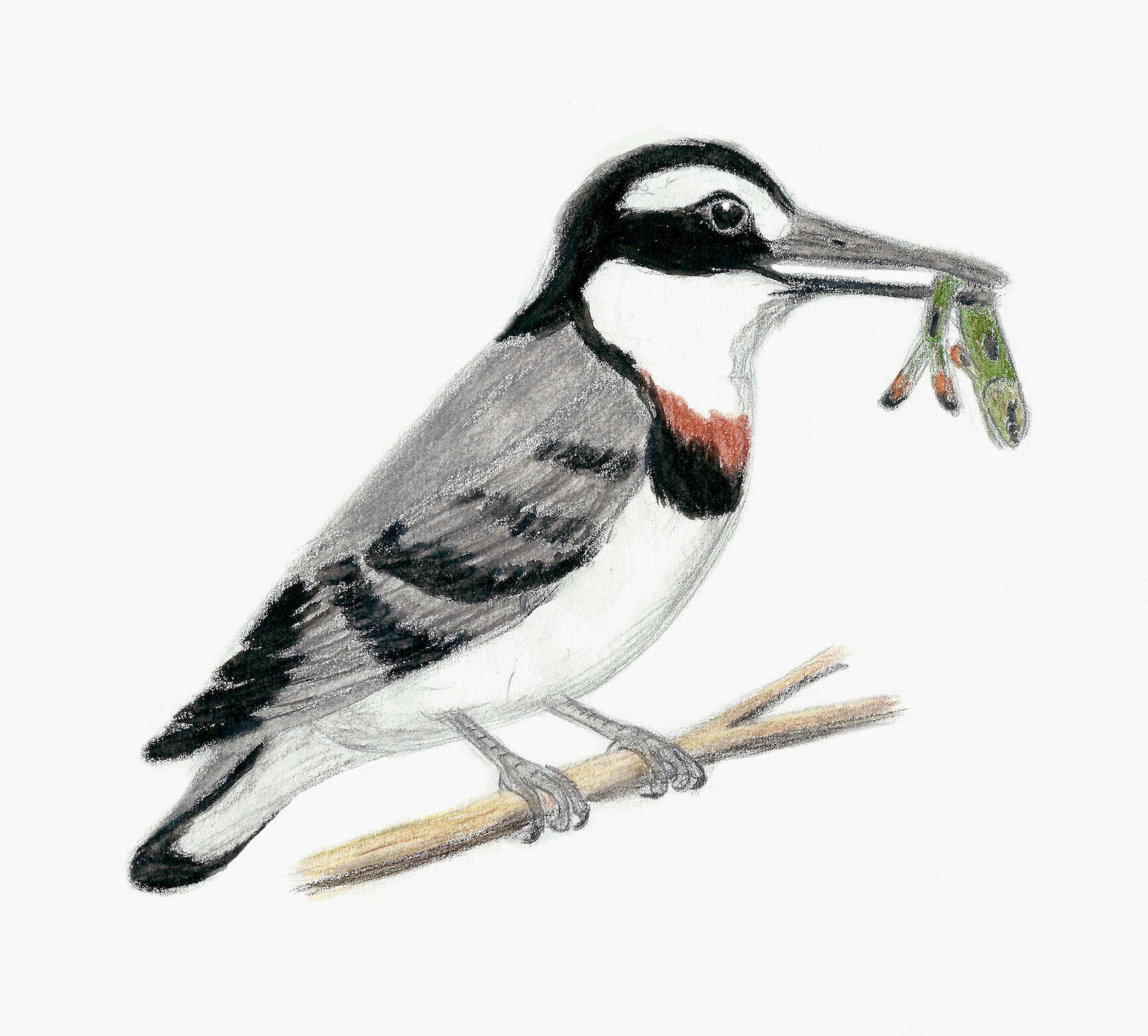 Life restoration of Longipteryx chaoyangensis, an enantiornithine bird which lived in China during the Early Cretaceous period, around 120 million years ago